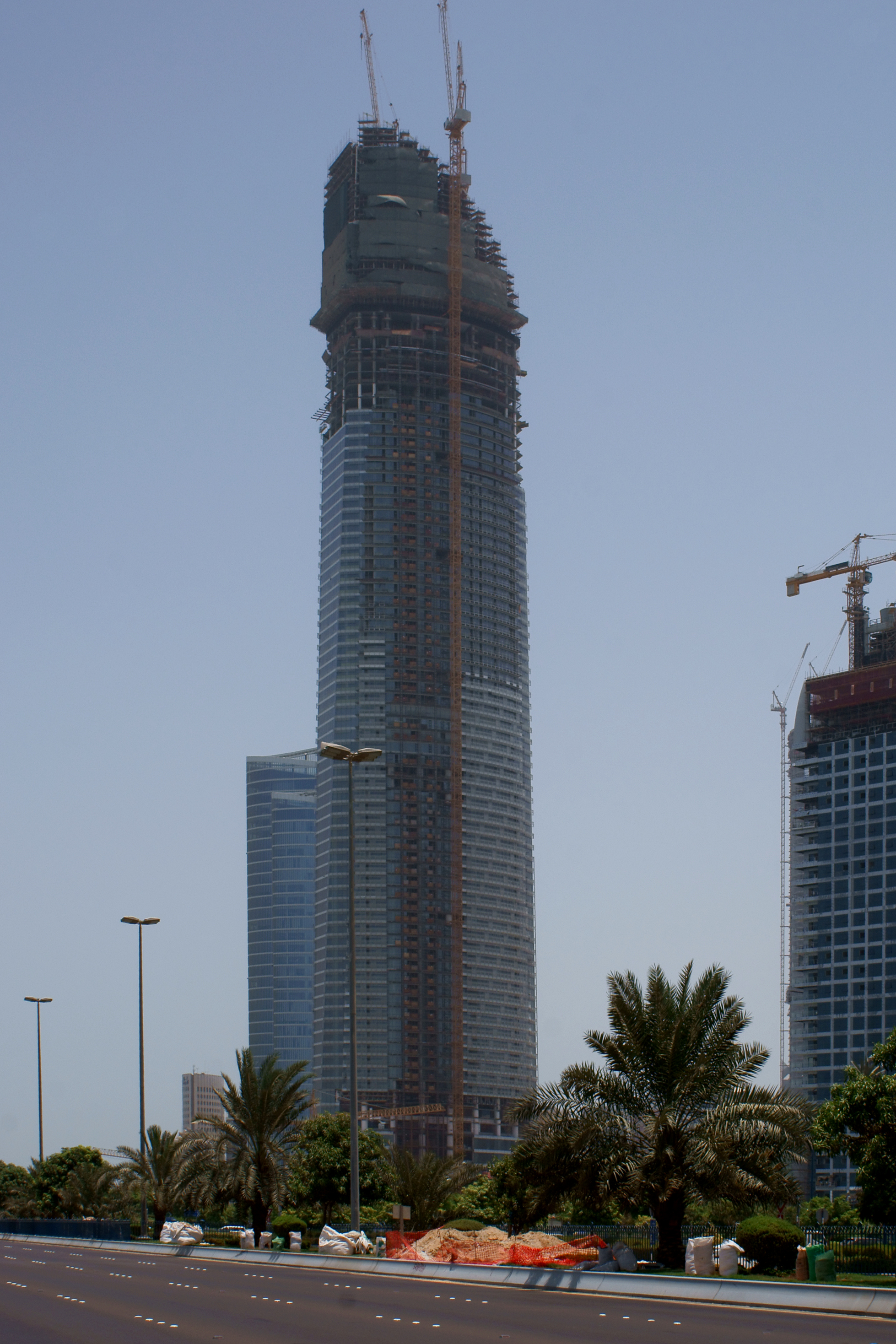 The Landmark in Abu Dhabi